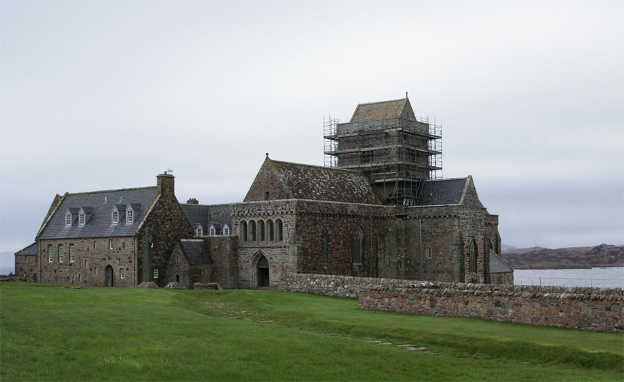 Iona Abbey - Island of Iona, Scotland